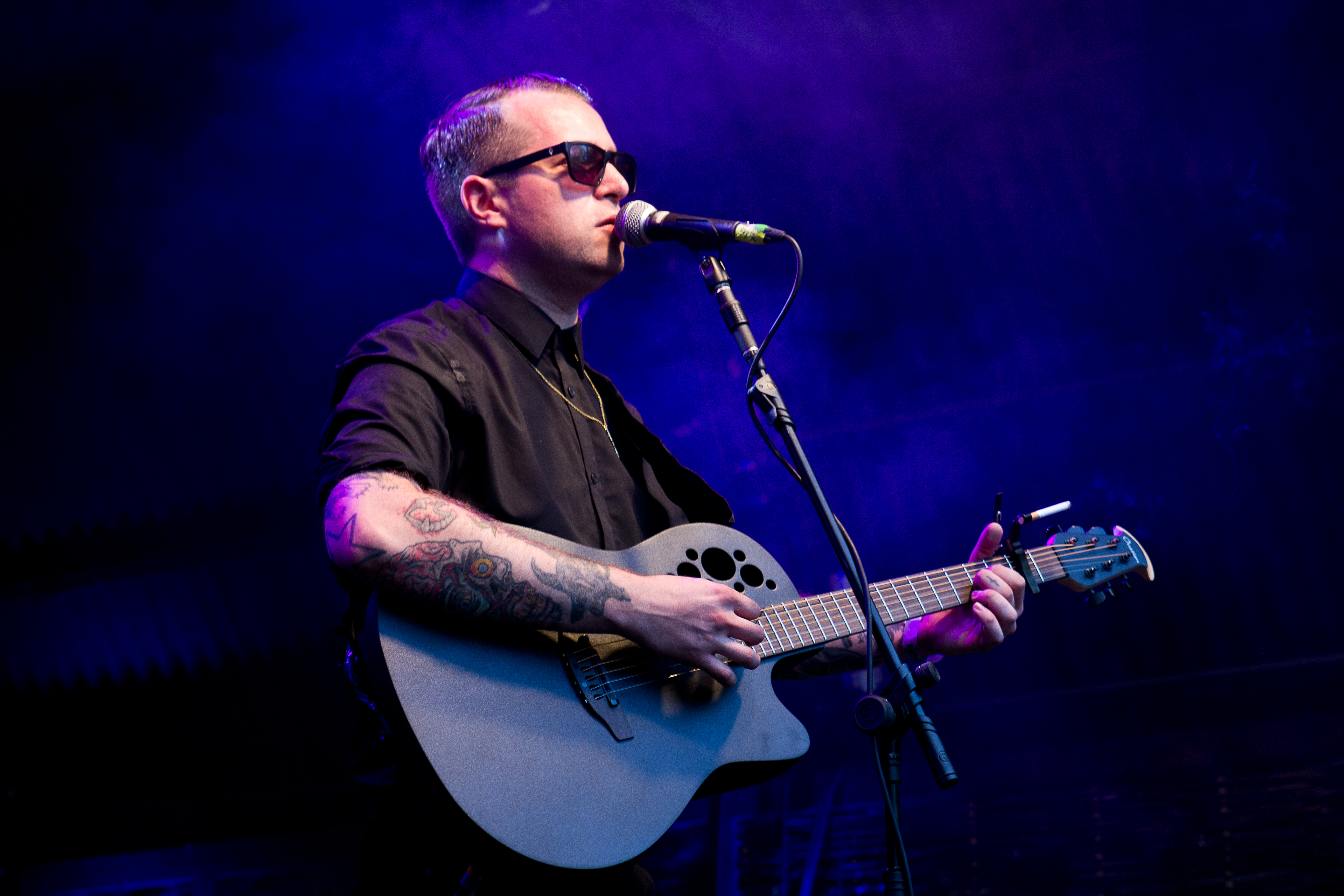 The US-american folk singer King Dude at the Nocturnal Culture Night 11 2016 in Deutzen/Germany.